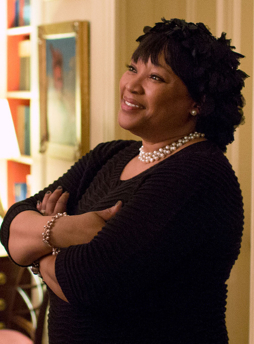 President Barack Obama and Zindzi and Zenani Mandela, Nov. 7, 2013.